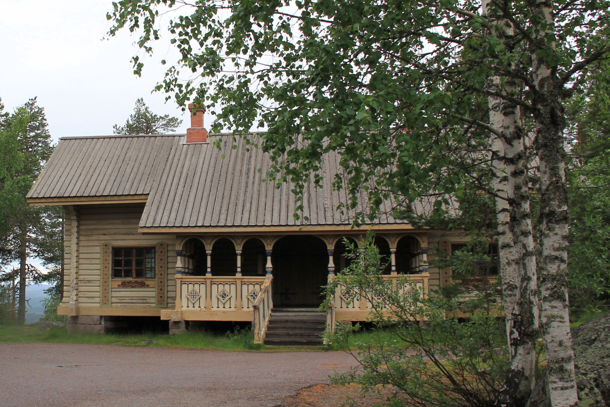 Imperial lodge, Aavasaksa, Ylitornio, Finland. - Log lodge was designed by architect Hugo E. Saurén and completed in 1882. - Main facade (seen from east).